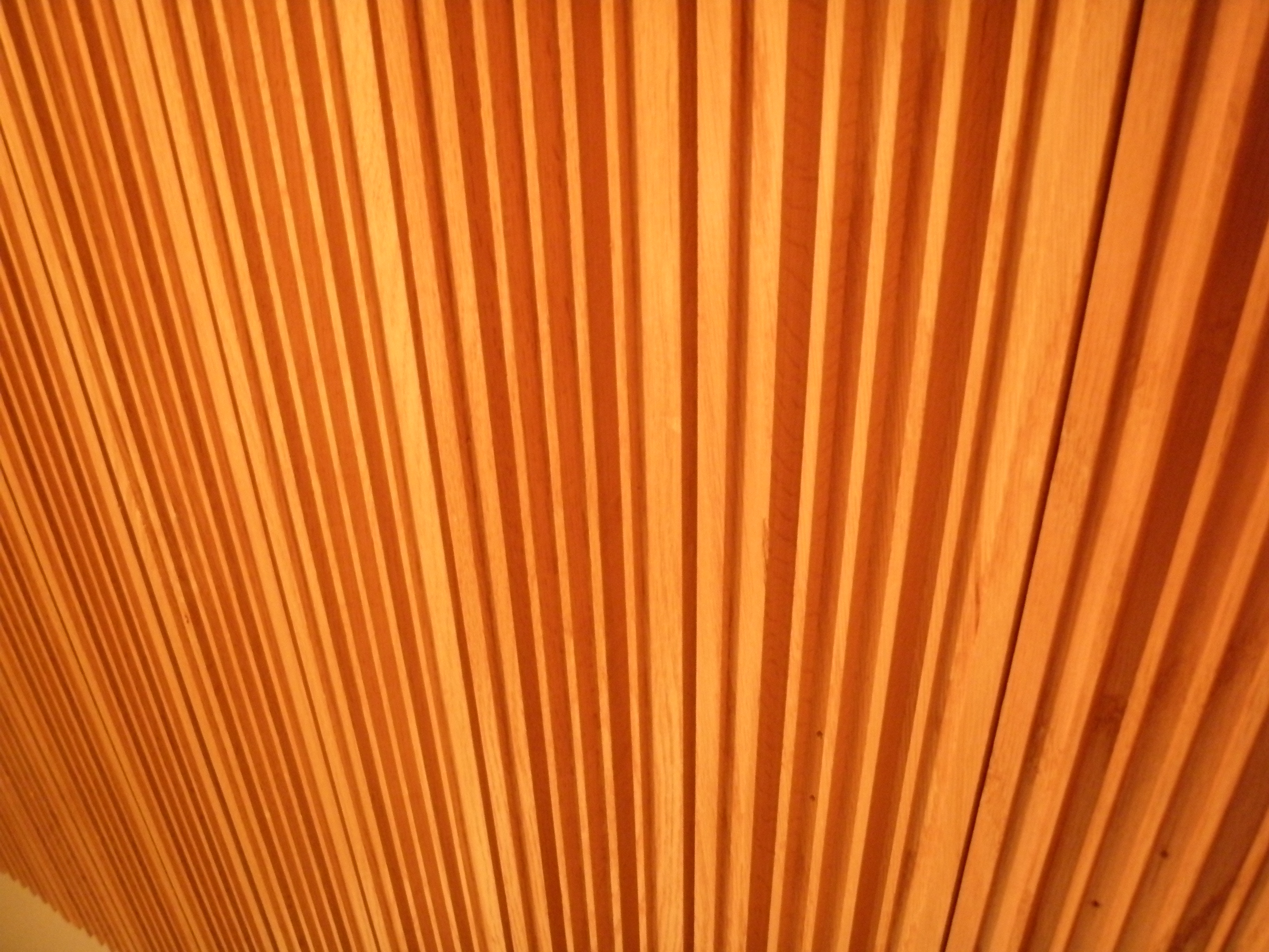 Soundproofing board for piano isolation booth